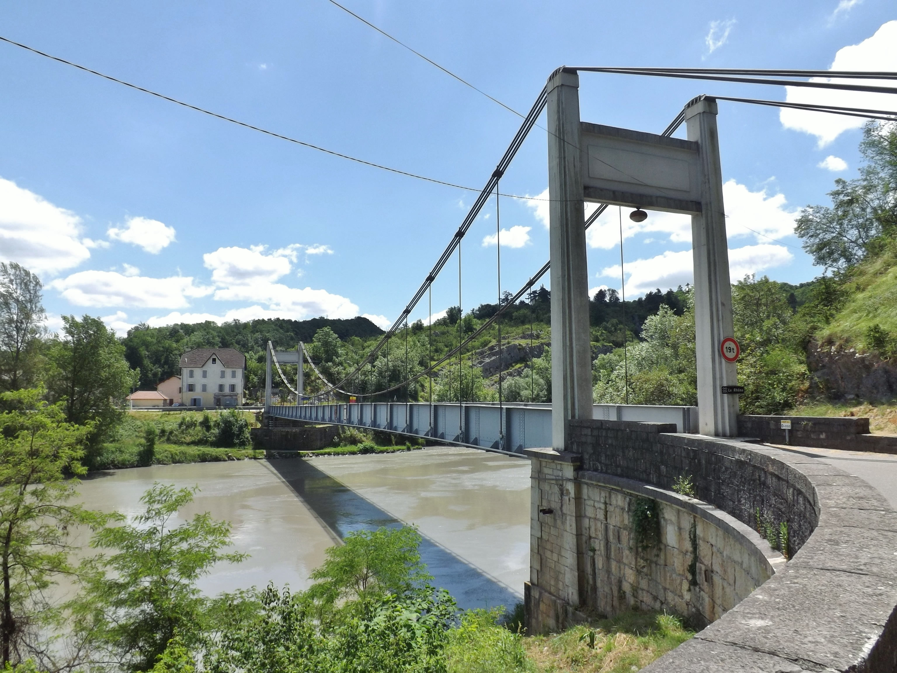 Sight of the suspension bridge of Yenne crossing the river Rhône and seen from Nattages in Ain, in the direction of Yenne in Savoie, France.